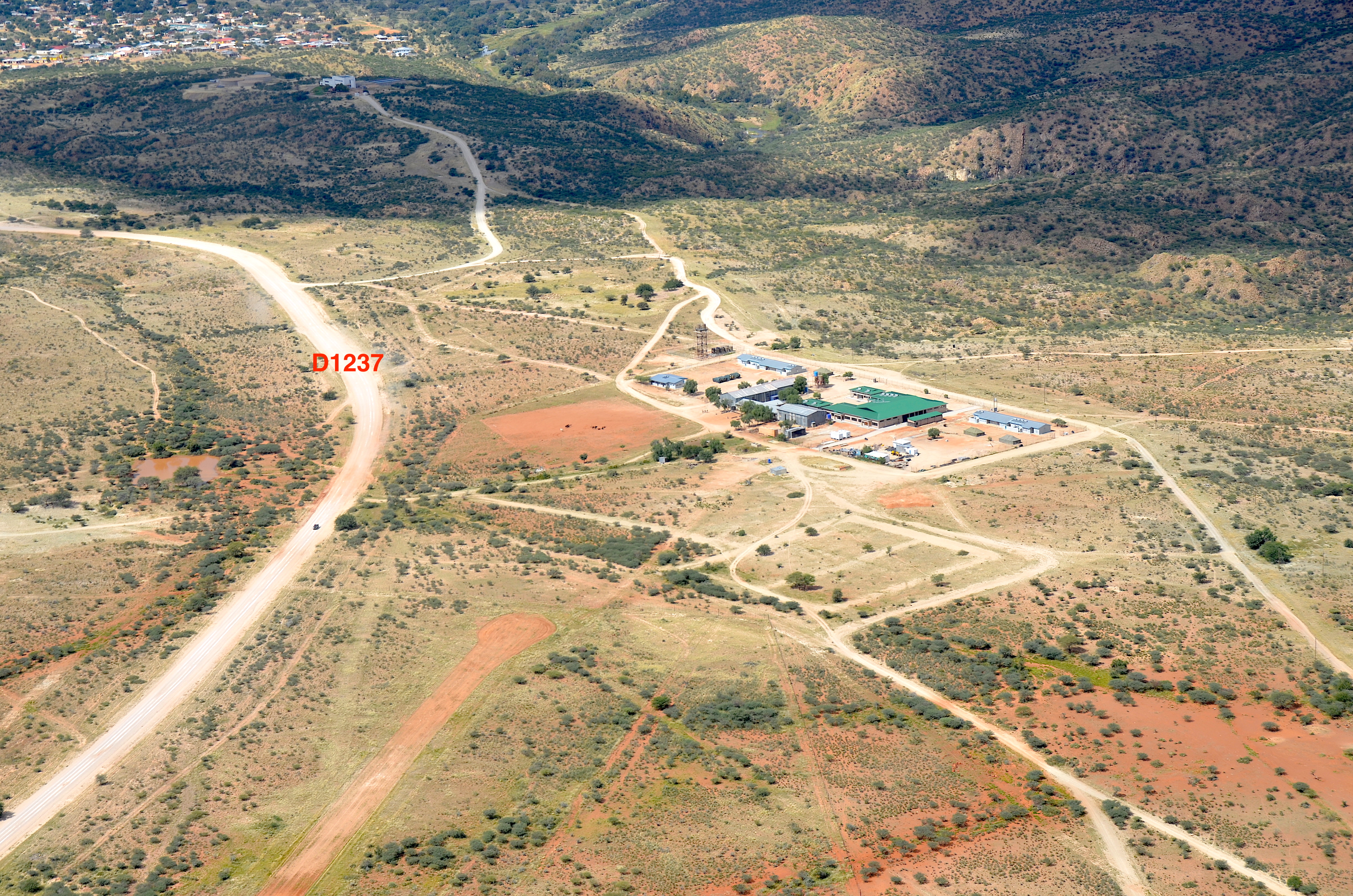 District road D1237 near Rehoboth in Namibia (2017)